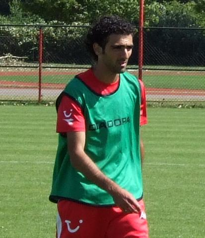 FC Twente player Vagif Javadov